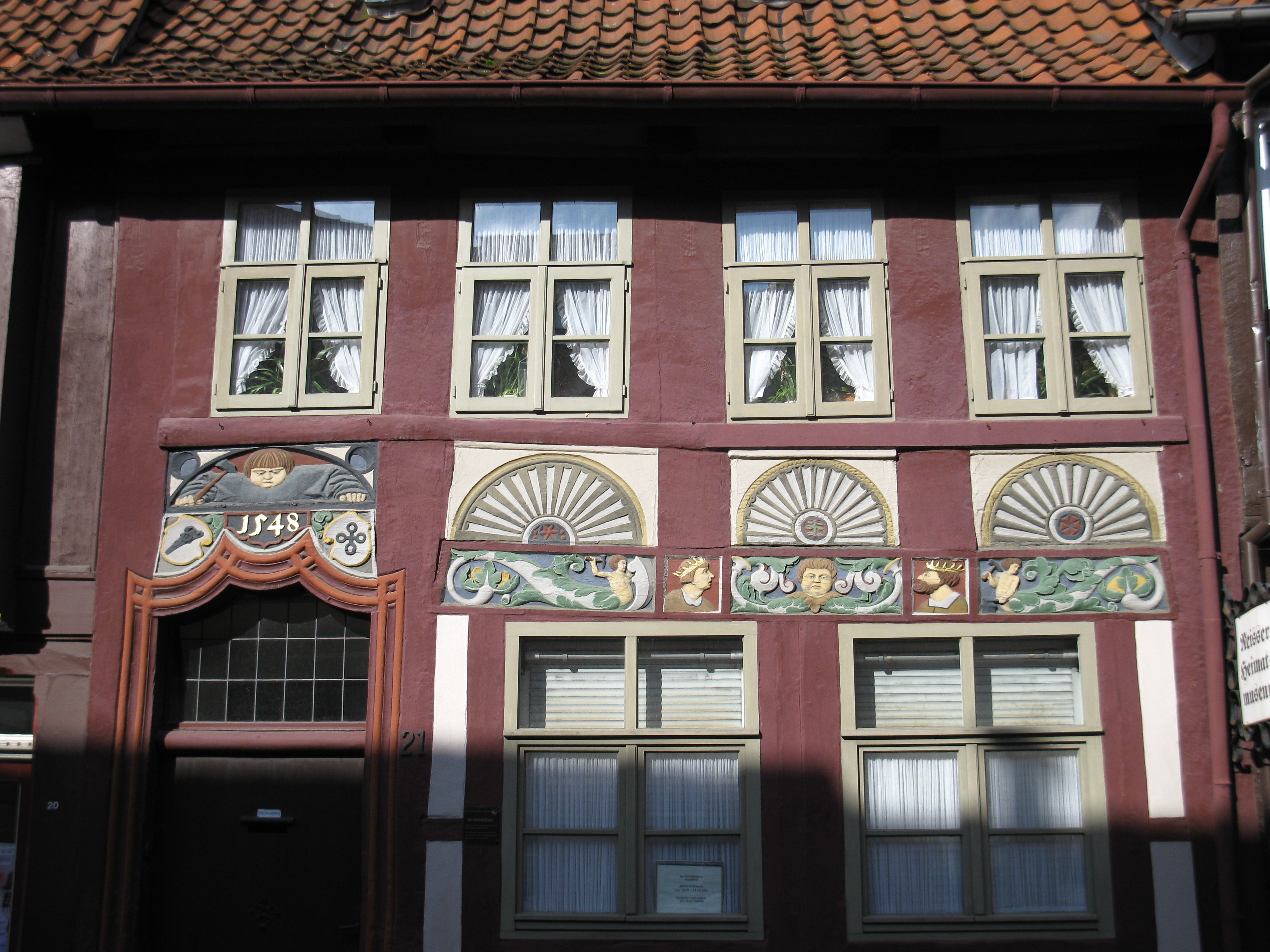 Waffenschmiedehaus (1548), a half-timbered house in Hildesheim.